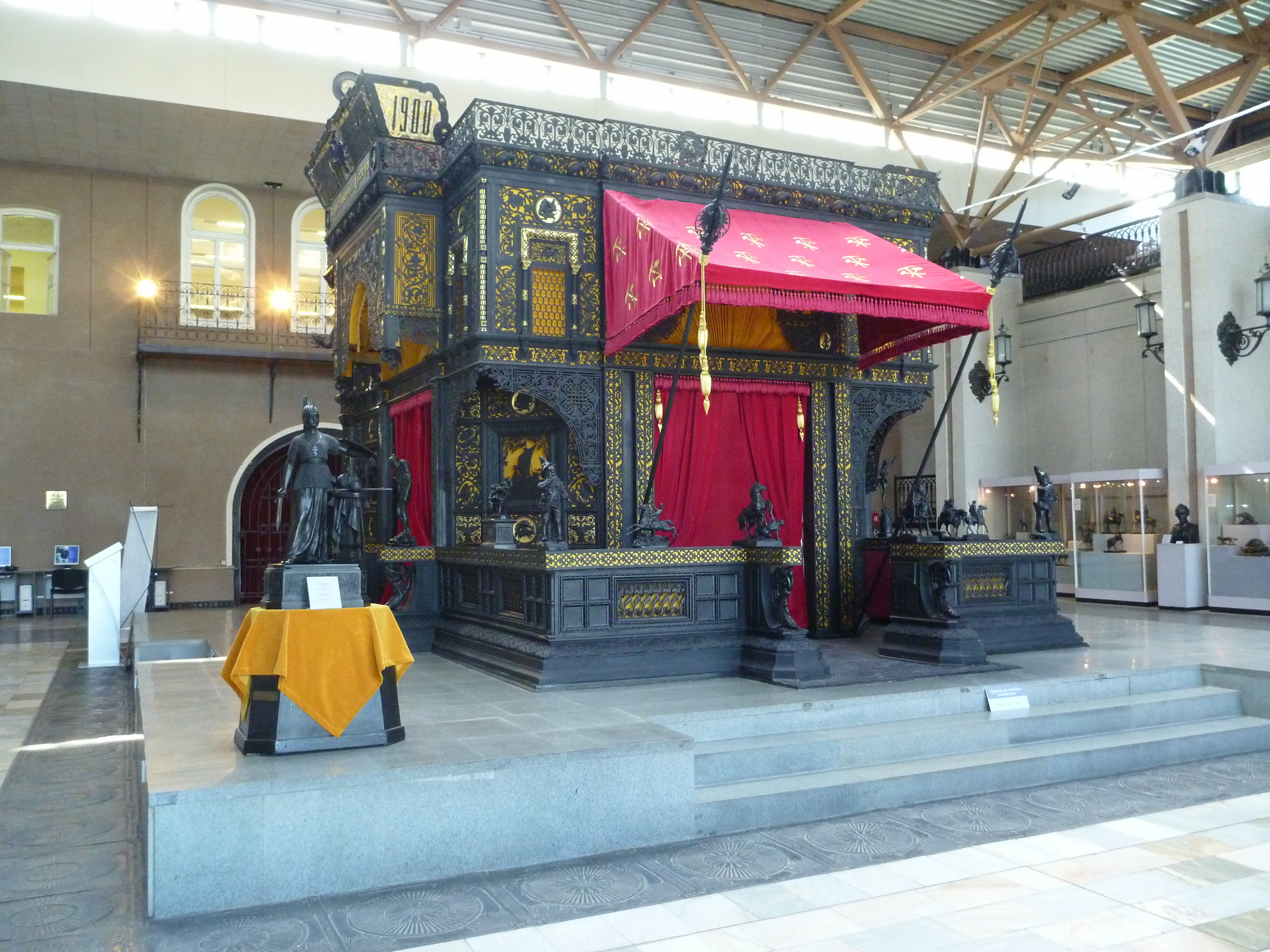 Kaslinsky Cast Iron Exhibition Hall